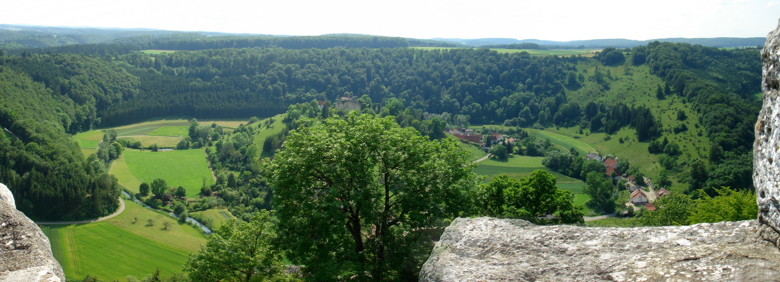 Panoramic view down from Castle ruin Hohengundelfingen, Swabian Alb